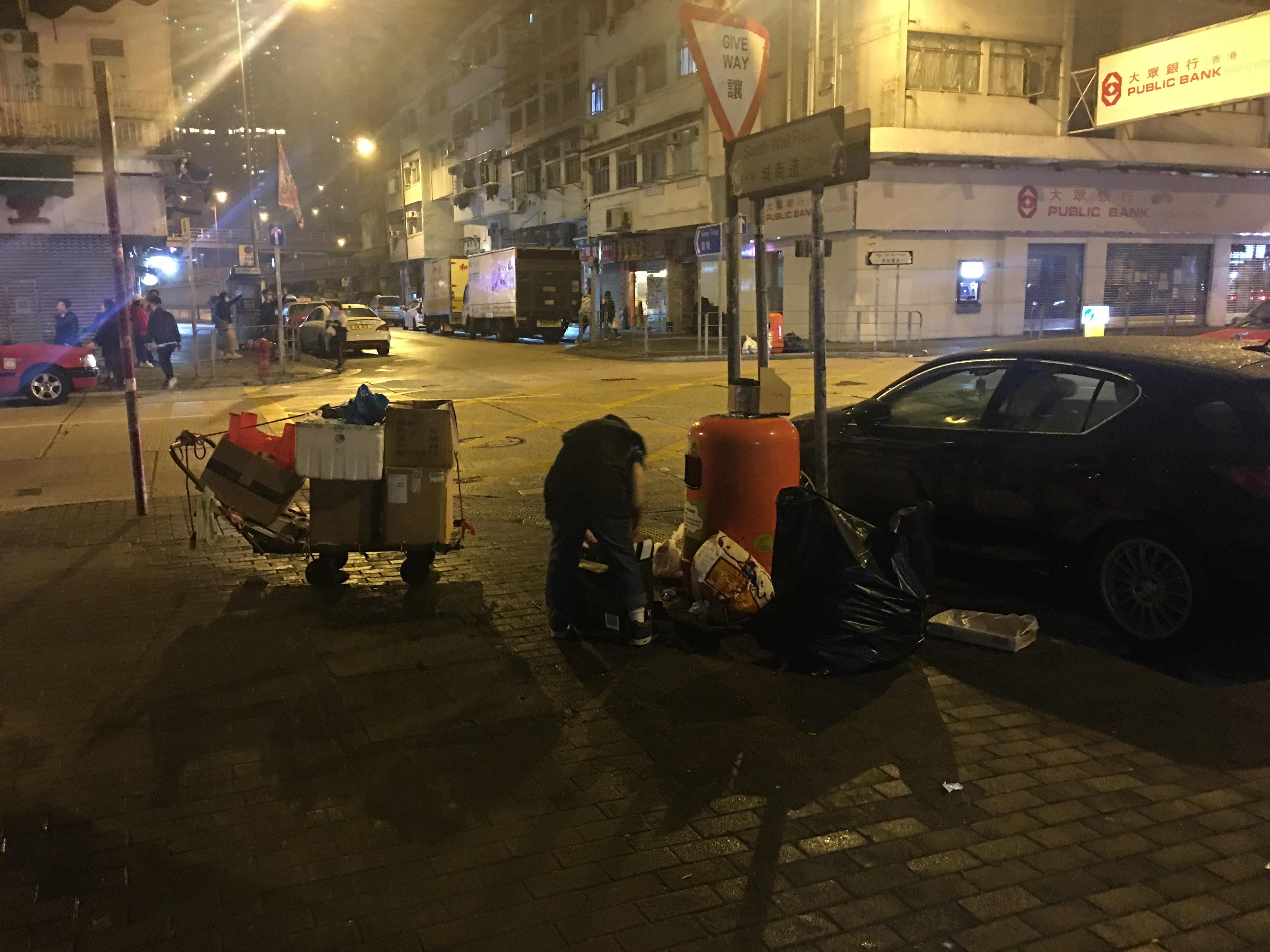 the Hong Kong poor people